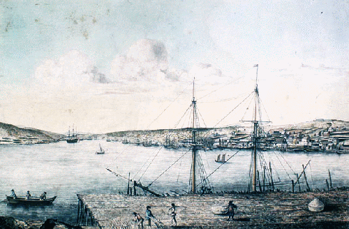 Fort William, Newfoundland "View of Upper end of the Harbour from a Little Below Fort William"